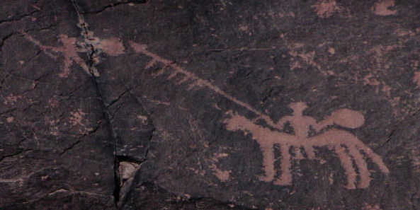 Prehistoric rock art, Foum Chena/ Tinzouline- Zagora, valley of the River Draa, Morocco